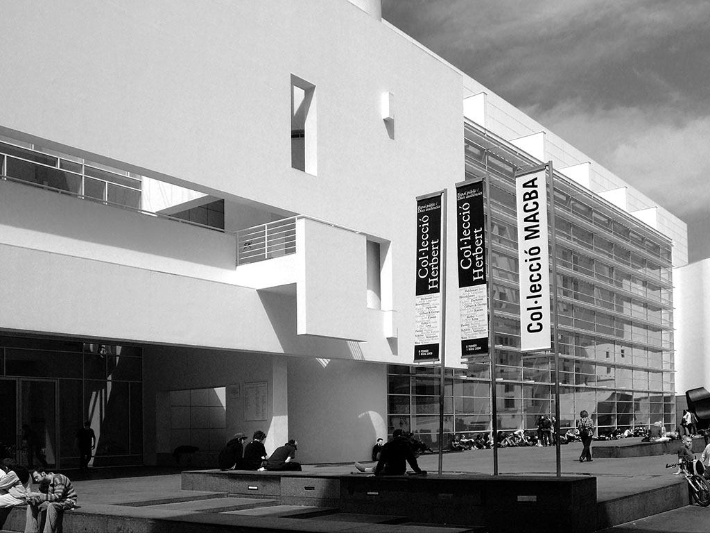 Barcelona Museum of Contemporary Art, MACBA, designed by Richard Meier